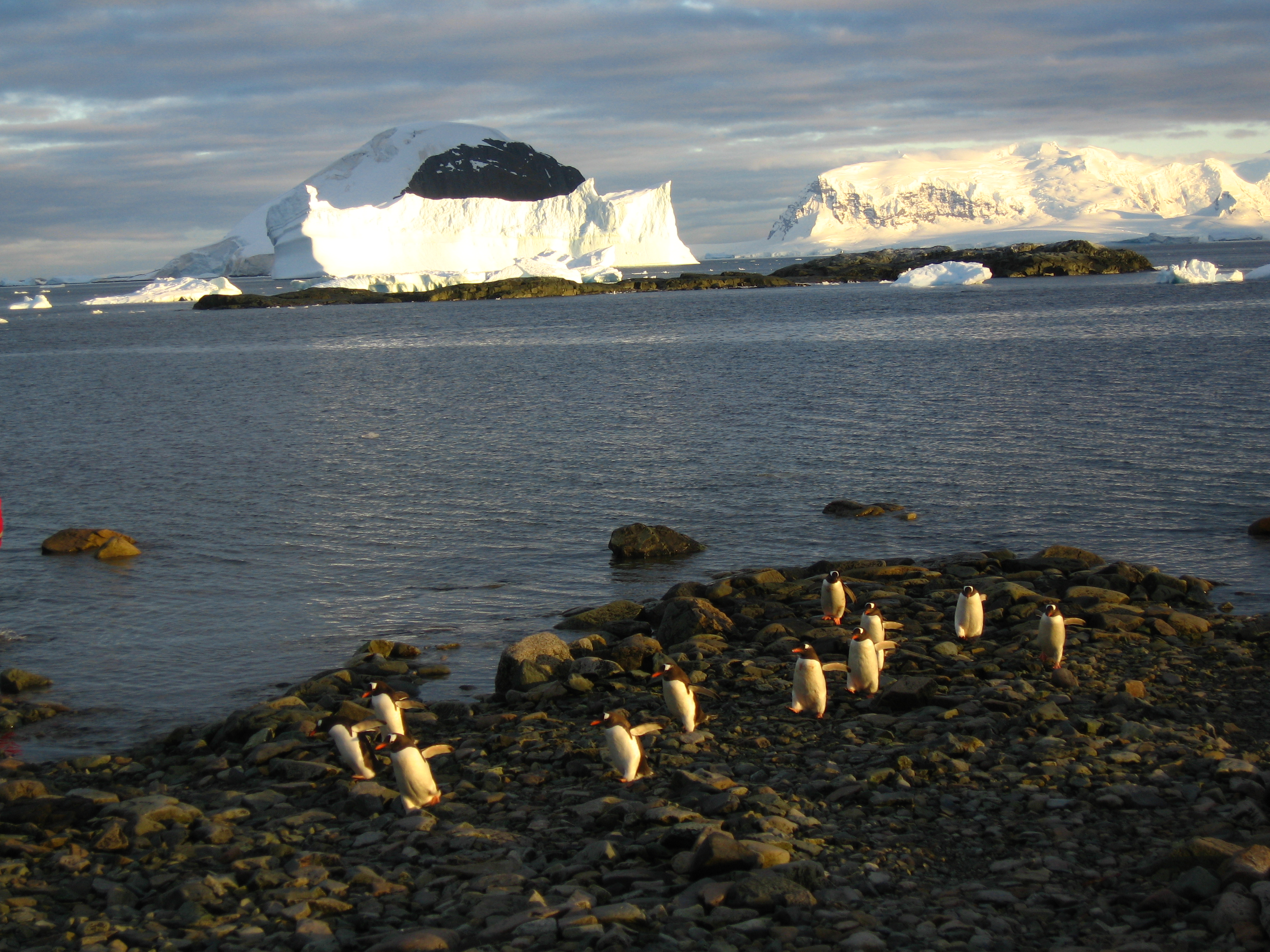 Danco Island penguins at 6am. Taken on trip to the Antarctic Peninsula in february 2009